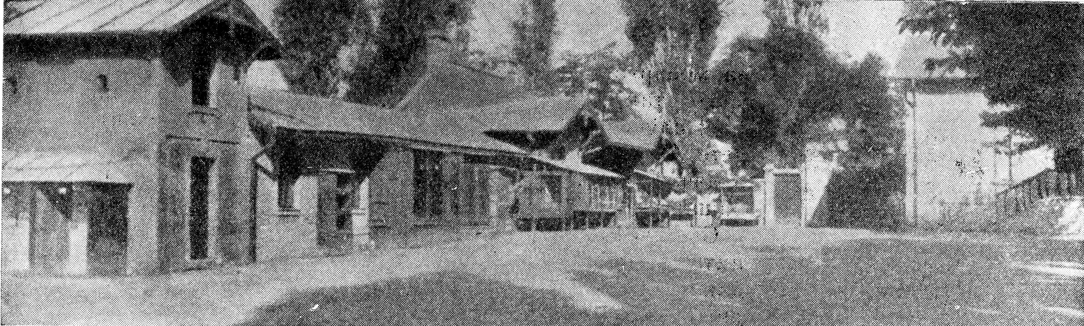 Sofia Zoo circa 1894